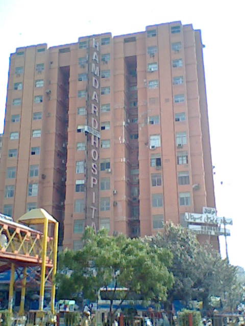 Hamdard Hospital